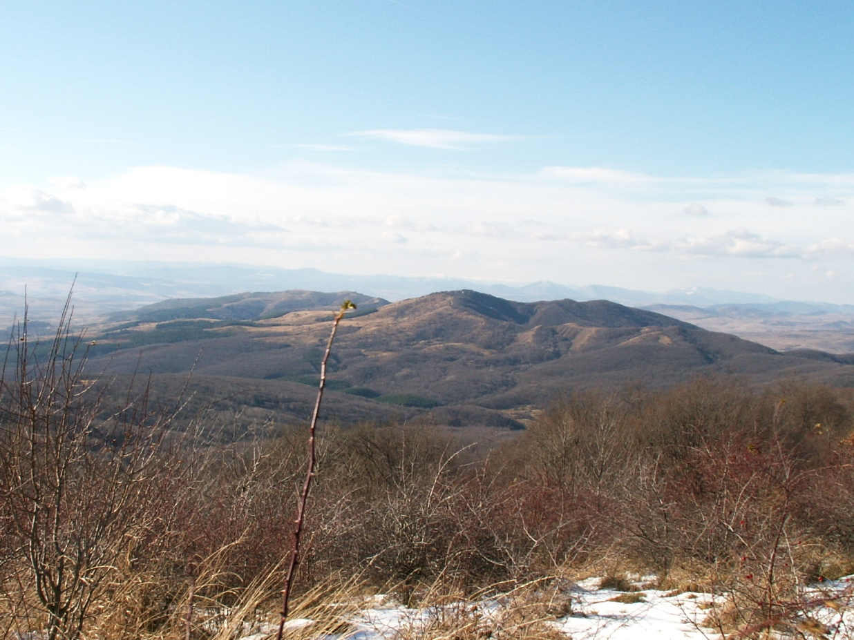 Viskyar Mountain from Lyulin Mountain. Photograph by Kiril Kapustin published in under Creative Commons license 2.5.